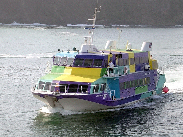 Seven Island Yume (Tokai Kisen, Izu-Oshima Okada port, Tokyo, JAPAN)